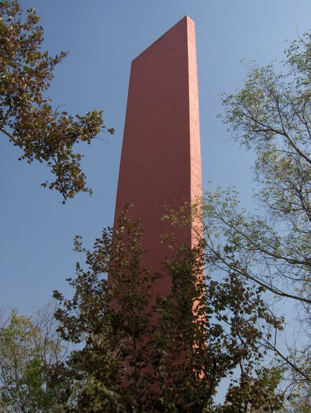 "Faro de Comercio" Trade Lighthouse from architect Luis Barragán. Placed in Monterrey Mexico (1984)